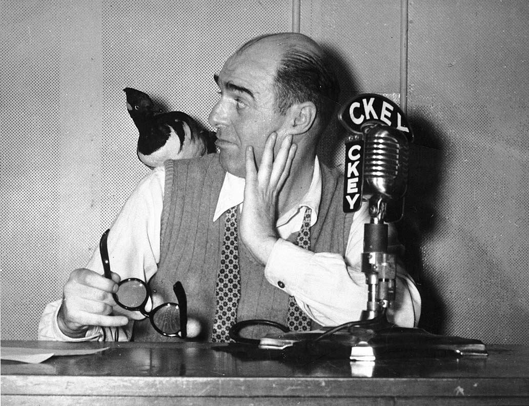 Announcer Mickey Lester at Toronto radio station CKEY. In the late 1950s and early 1960s, CKEY was the leading Top 40 music competitor to 1050 CHUM. In 1948, Billboard Magazine reported that Lester was named Canada's top DJ of that year. After many owership changes and format switches, CKEY evenually became CHKT and today it airs mainly Chinese (Cantonese & Mandarin) language programming.